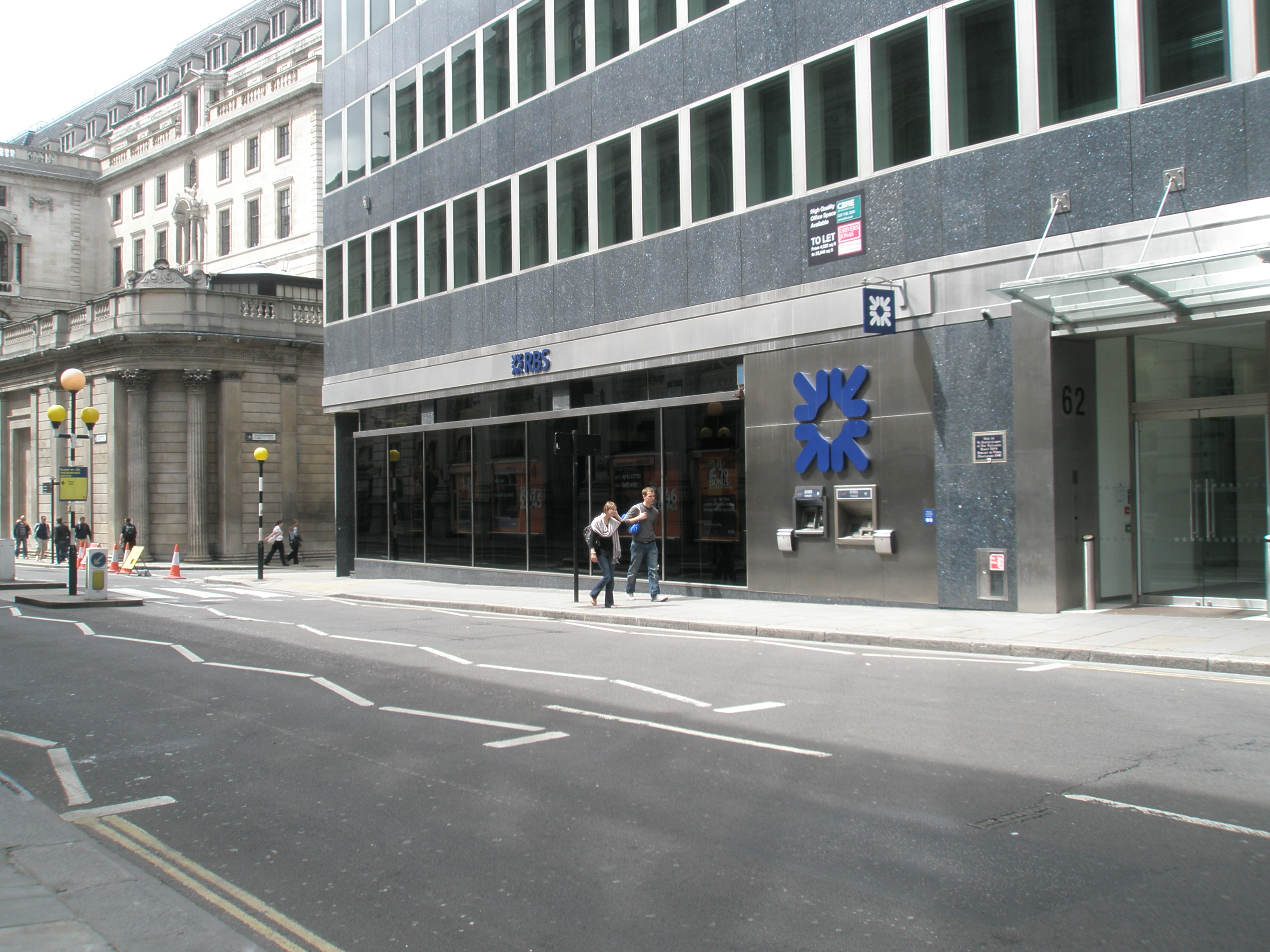 Threadneedle Street